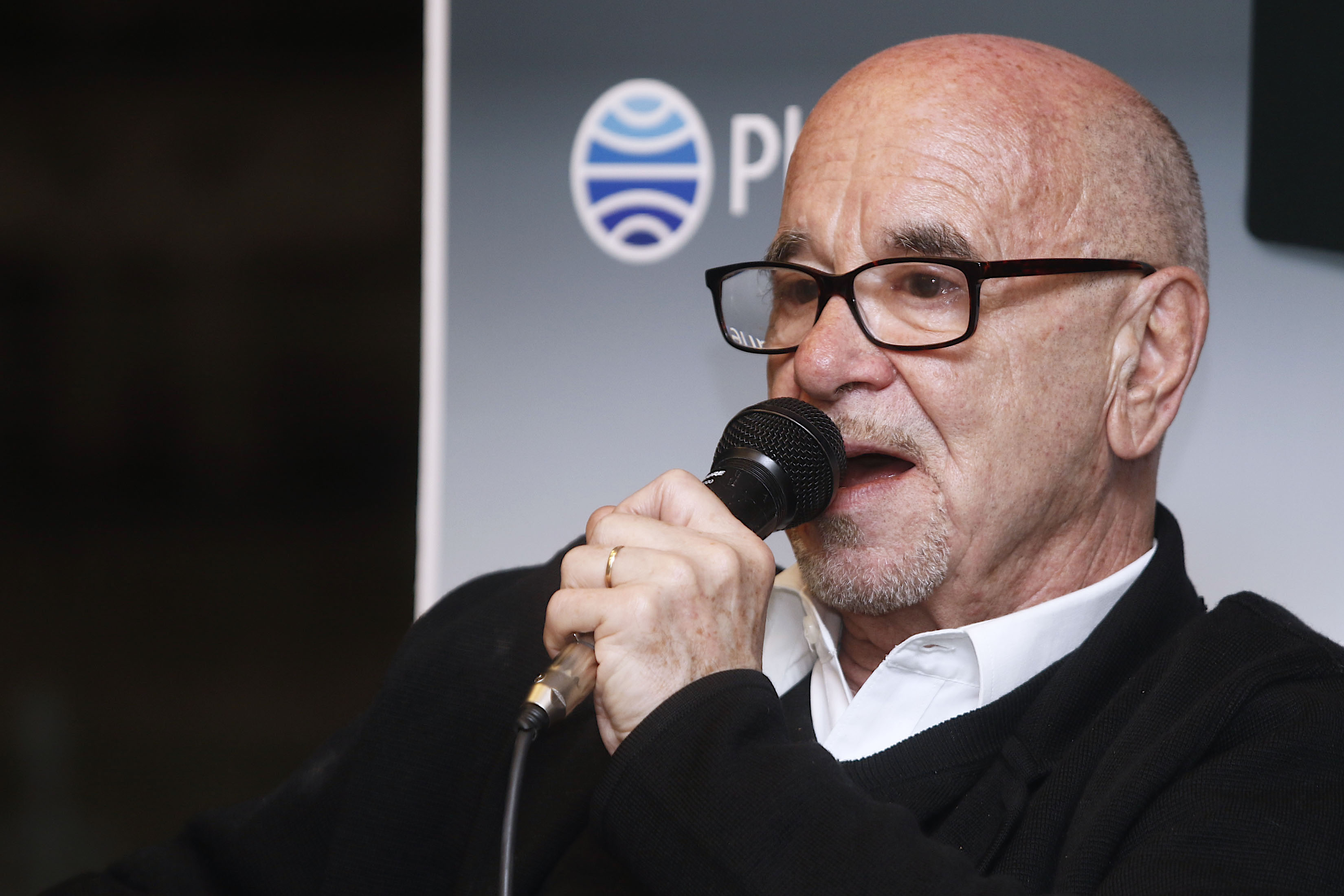 Miércoles 11 de septiembre de 2019 En el Museo del Estanquillo Colecciones Carlos Monsiváis, Henri Donnadieu, fundador del legendario bar El Nueve, presentó el libro La noche soy yo, donde el escritor francés narra el origen del primer antro cultural LGBTTTI en la capital del país, se contó con los comentarios de José Alfonso Suárez del Real y Aguilera, secretario de Cultura de la Ciudad de México y Aurelien Guilabert, fundado de Espacio Progresista, así como la participación de asiduos visitantes de El Nueve. Fotografía: Milton Martínez / Secretaría de Cultura de la Ciudad de México